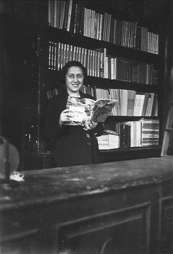 Esther (Stula) Gitlin poses with a Hebrew reader at her father's, E. Gitlin, Bookstore in Nalewki street in Warsaw. Esther (Hildesheim) was born in 1912 and perished in the Holocaust (see page of testimony on Yad Vashem website).